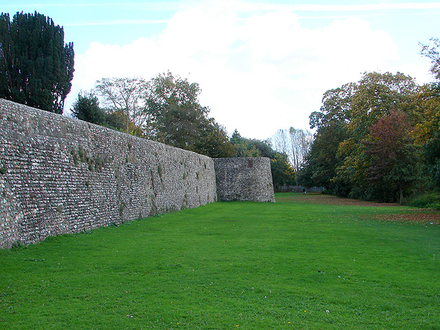 Chichester Roman Wall